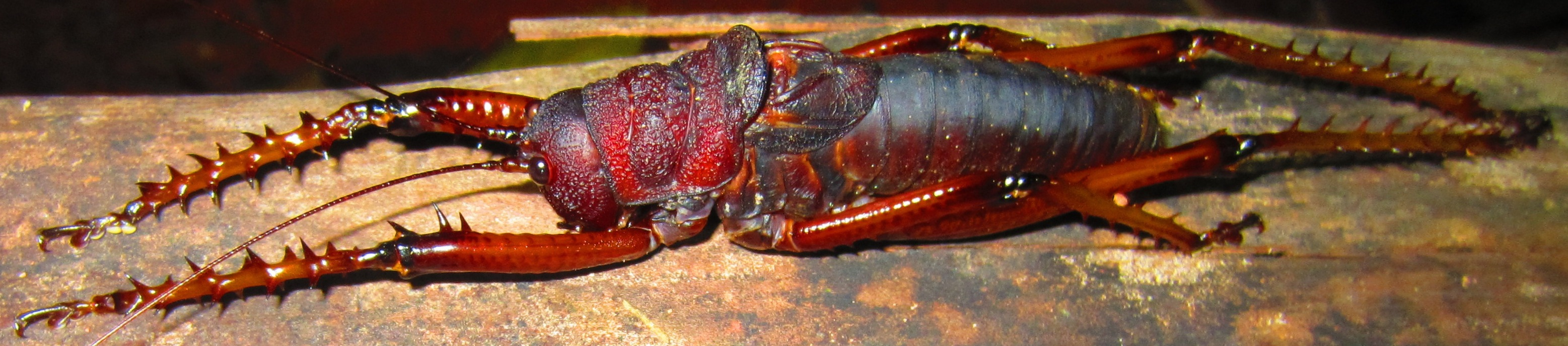 male Panoploscelis specularis, Cuyabeno River, Sucumbíos Province, Ecuador